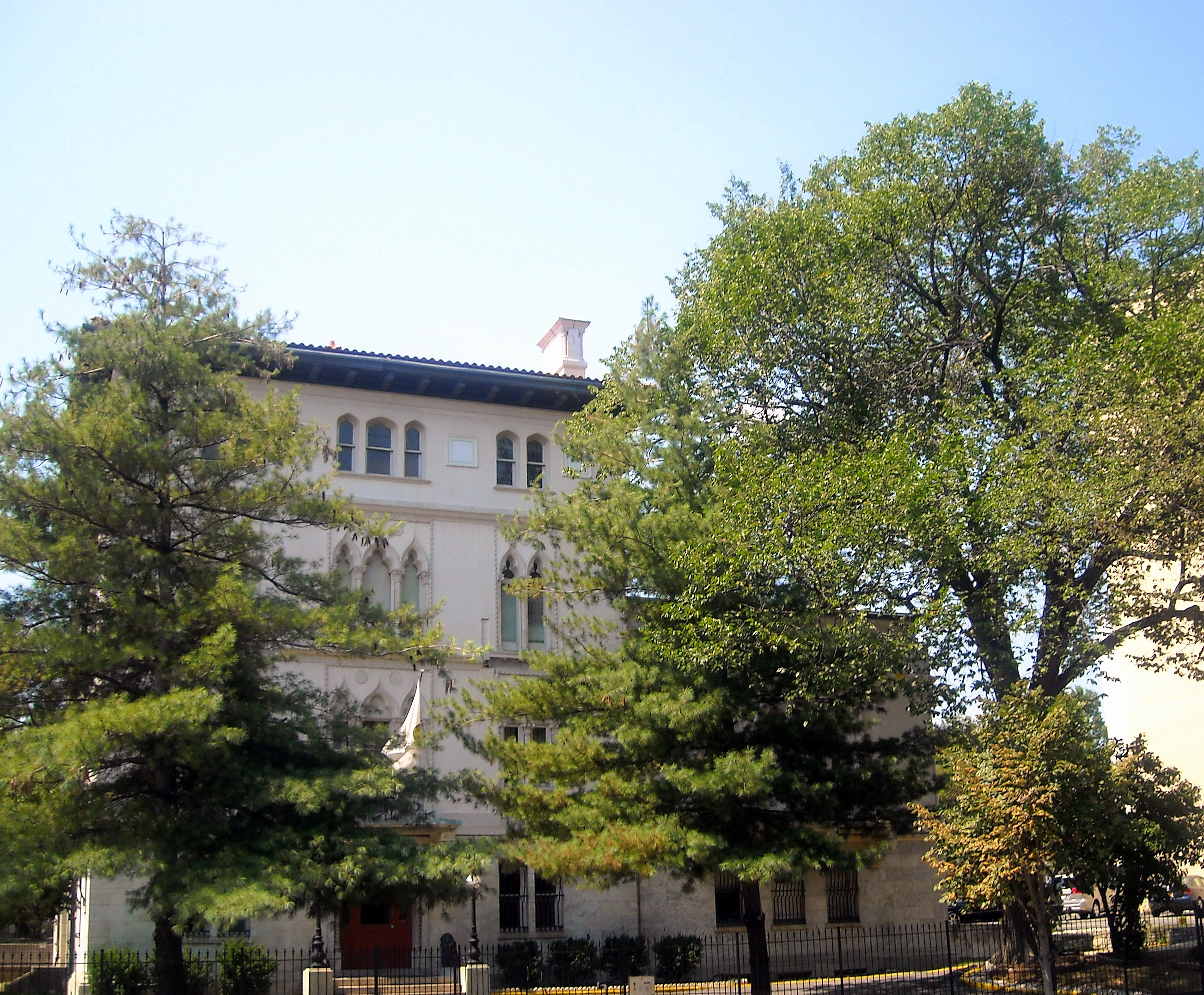 Pink Palace, now used by the Inter-American Defense Board, at 2600 16th Street, NW in Washington, D.C. The building is listed on the National Register of Historic Places and is a contributing property to the 16th Street Historic District.